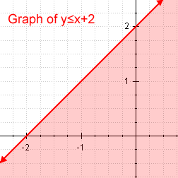 This is a graph of an inequality.